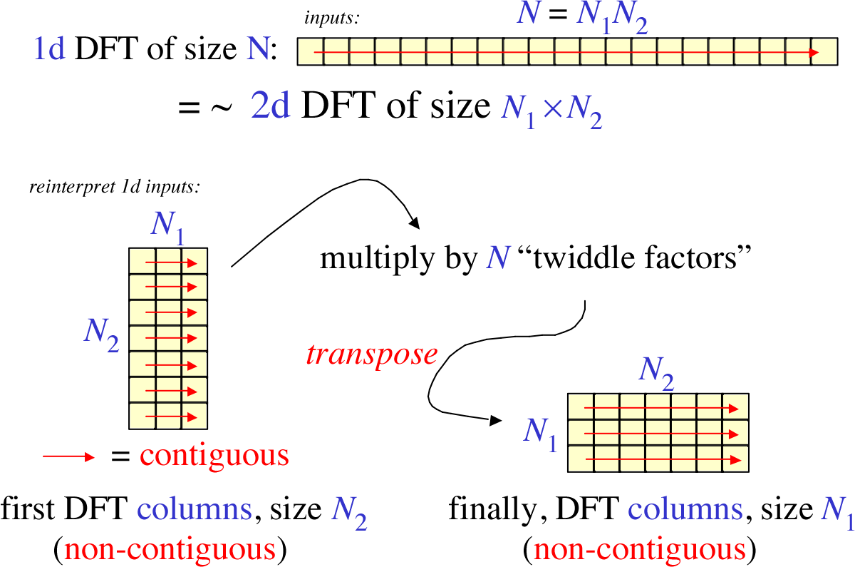 Diagram to illustrate the general Cooley–Tukey FFT algorithm, which reinterprets a 1D DFT as a 2D DFT plus phase factors and transposition, recursively.